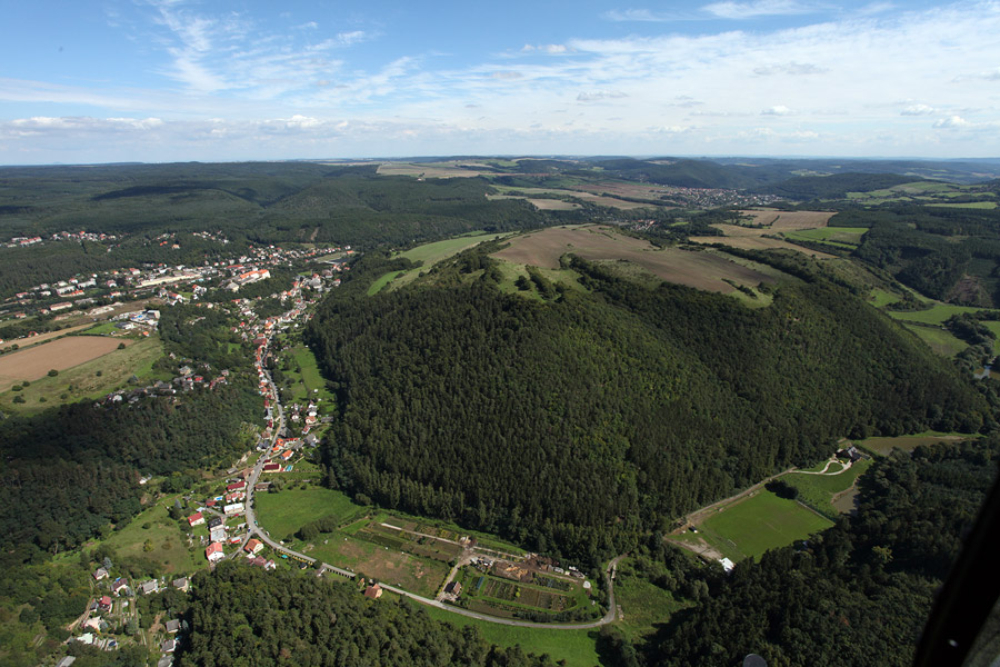 Oppidum Stradonice, Czech Republic